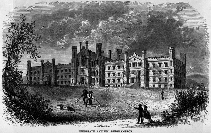 Woodcut illustration from the book STATE OF NEW YORK, Edited by Henry Kollock, 1882. Depicts the Binghamton Inebriate Asylum.